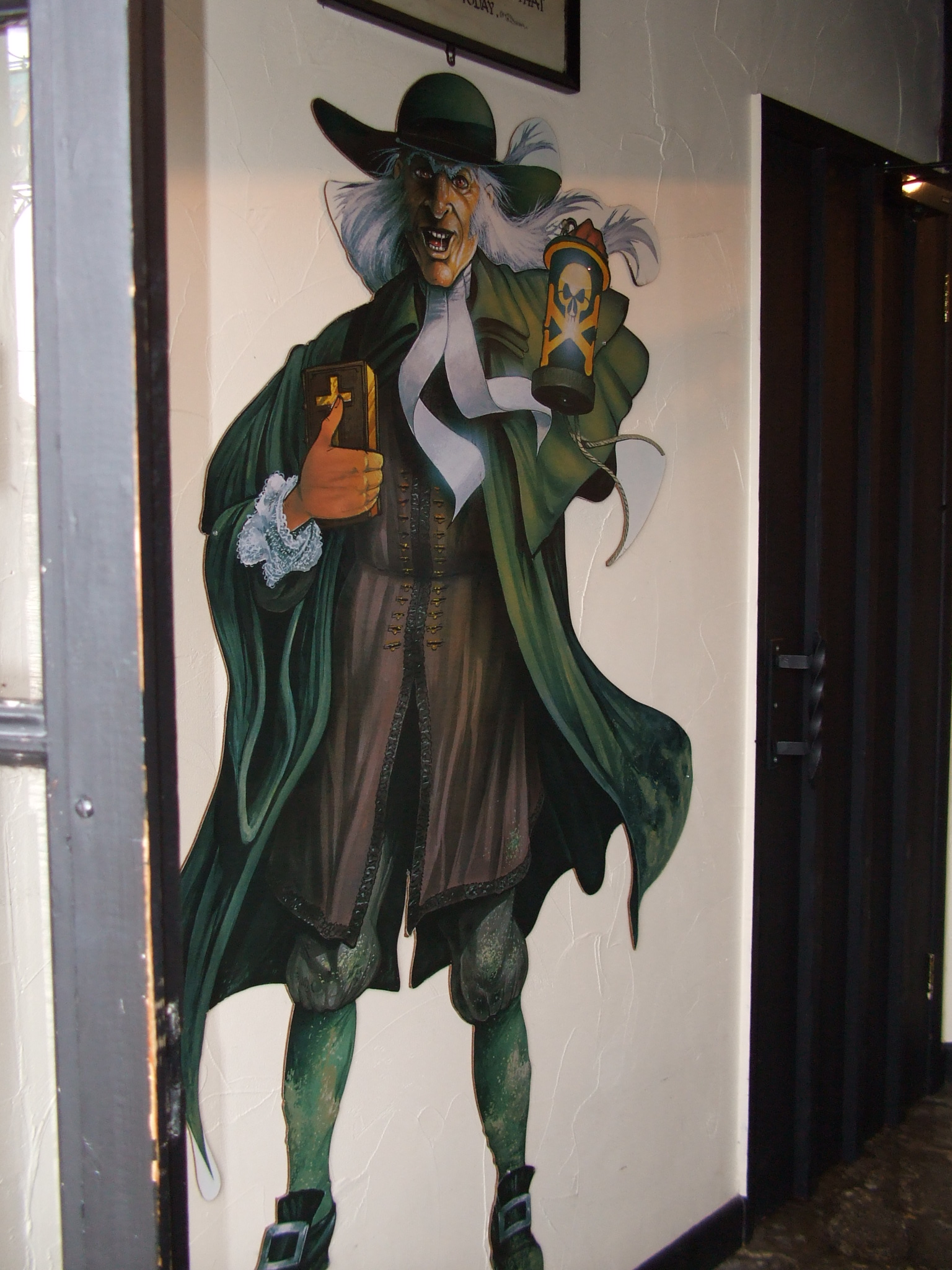 Highwayman, Jamaica Inn, Cornwall Camera: Fujifilm FinePix A610 License on Flickr (2010-12-27): CC-BY-SA-2.0 Flickr tags: Cornwall, Holiday 2007